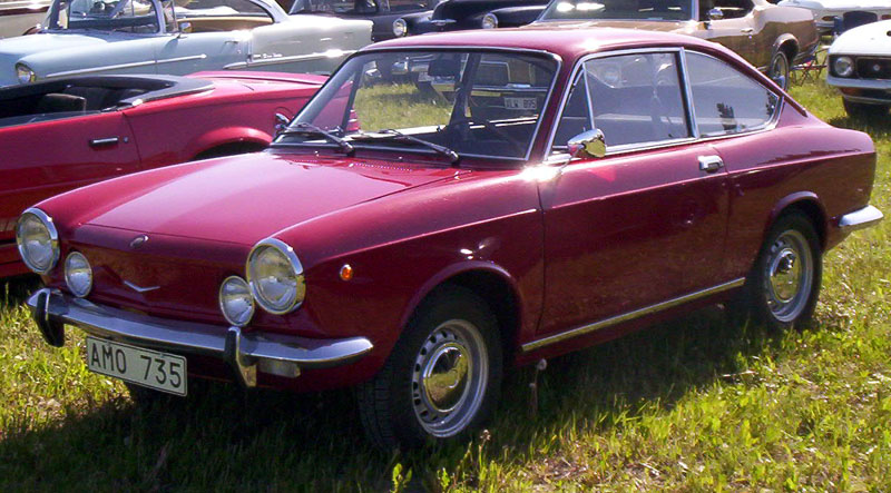 Fiat 850 Sport Coupé 100 1970